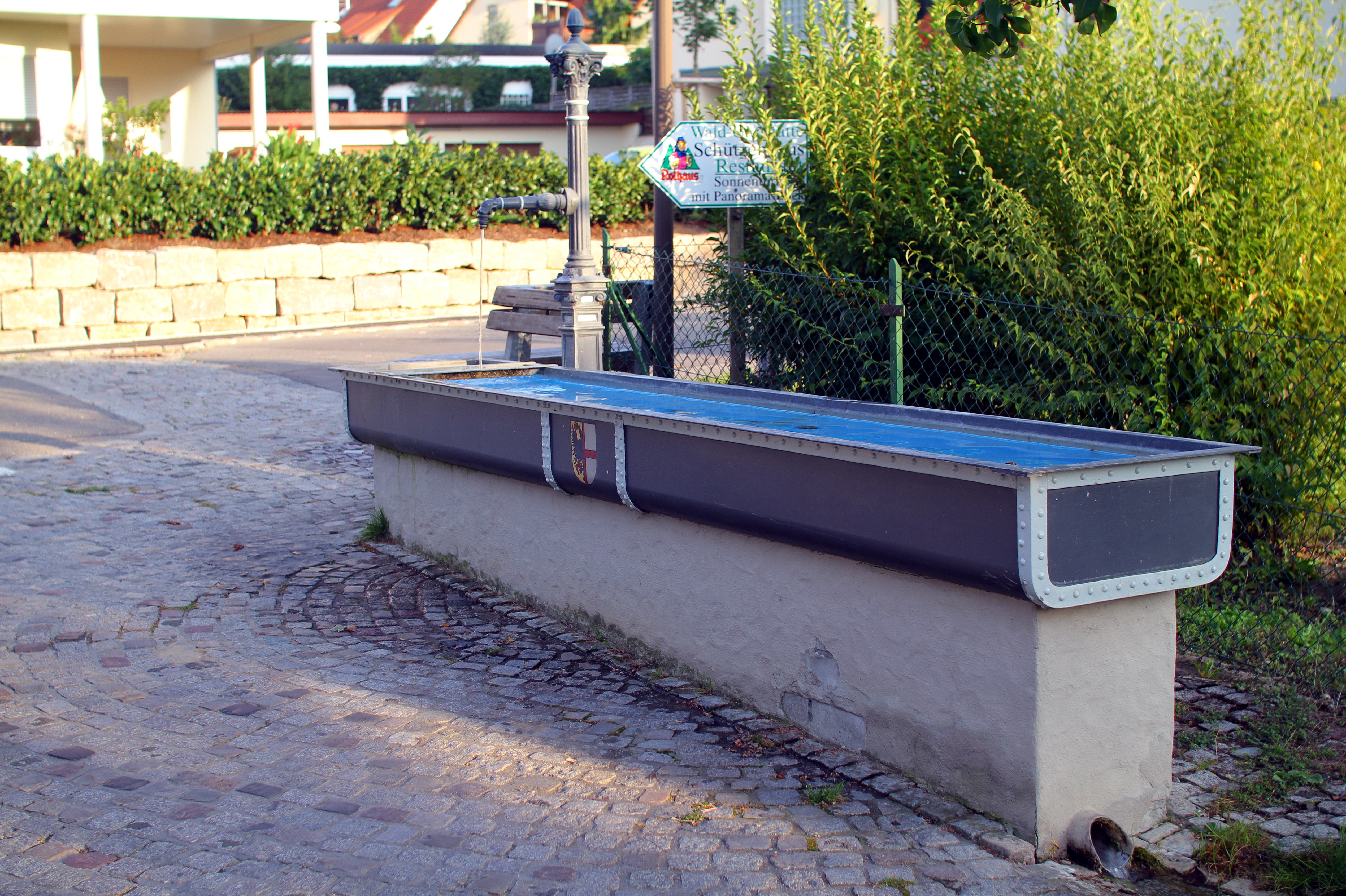 Döbelebrunnen Daisendorf, Viewdirection ESE